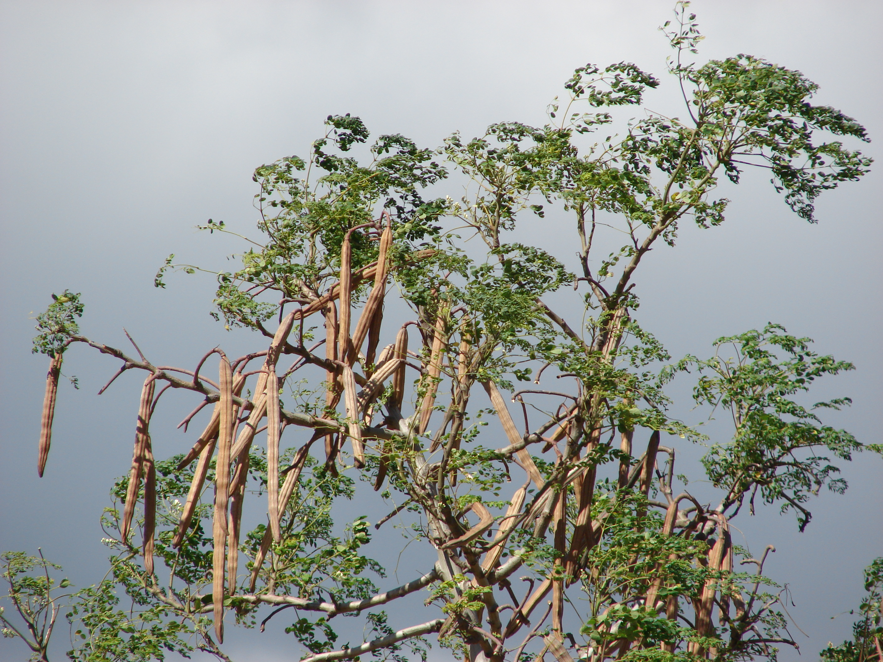 Moringa oleifera (seedpods). Location: Maui, Kahului